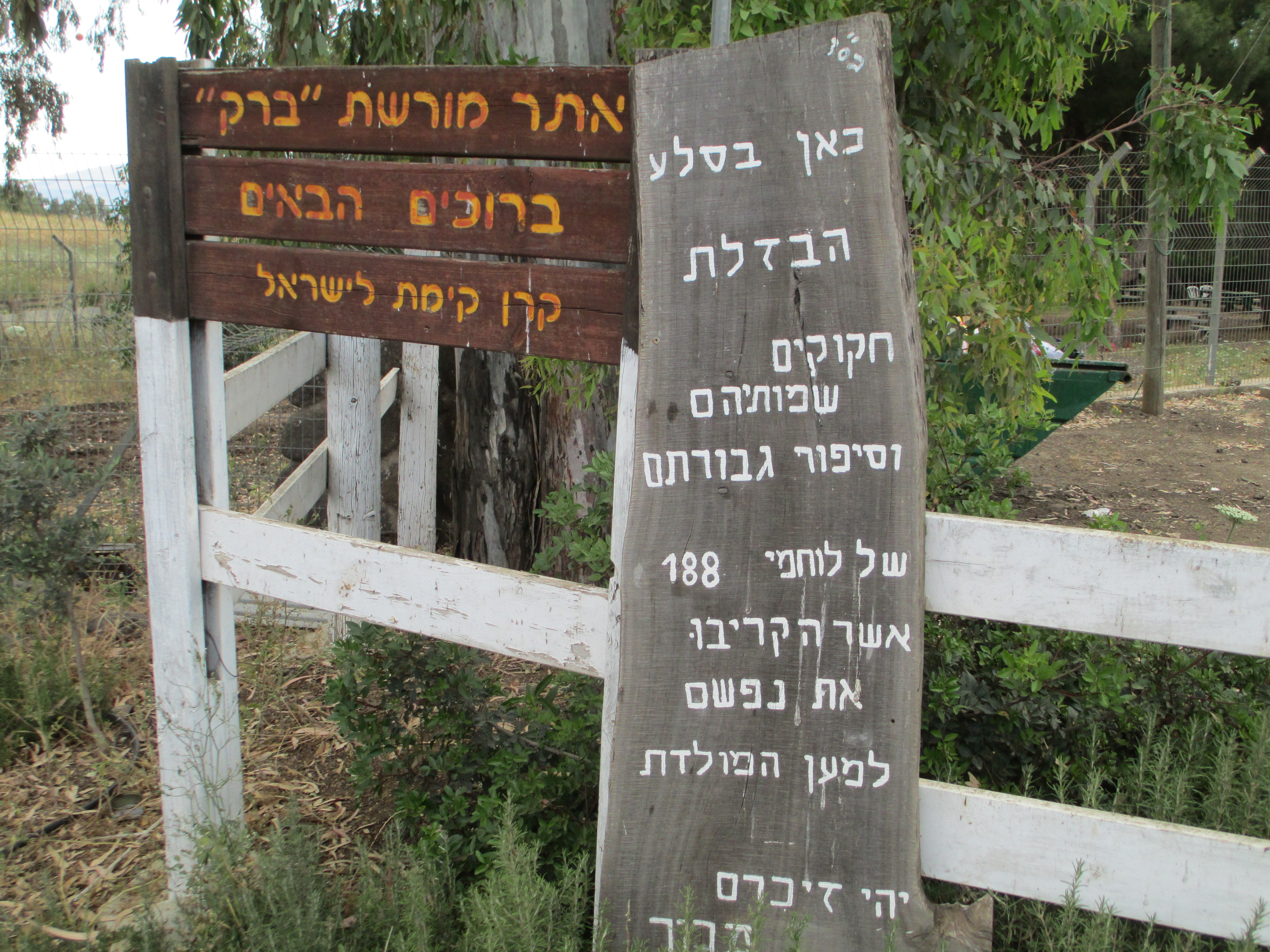 brigade 188 memorial, golan heights הכניסה לאתר מורשת חטיבת ברק במחנה עלייקה